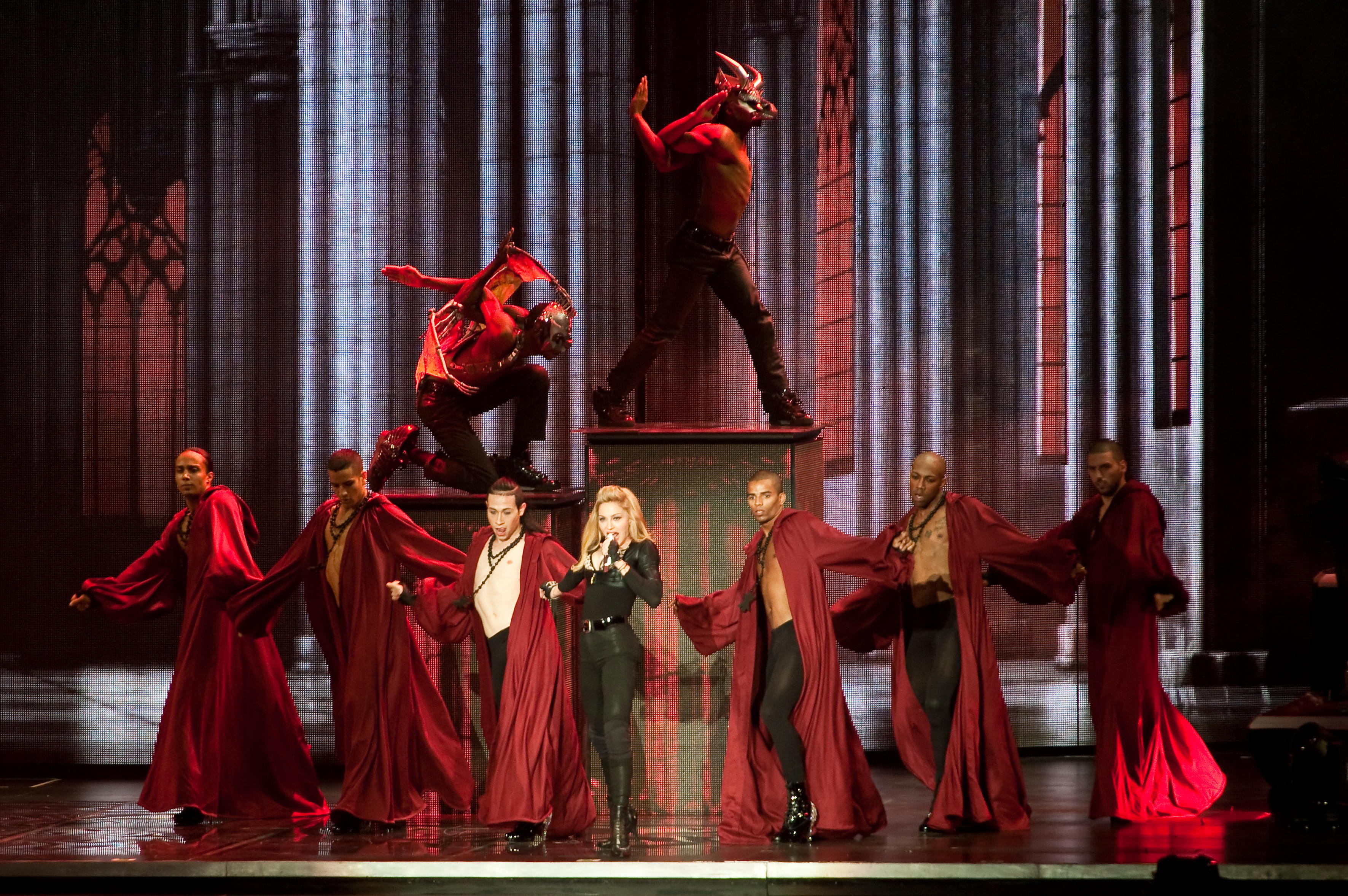 concert in Milan